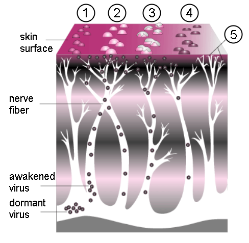 Progression of shingles. A cluster of small bumps (1) turns into blisters (2) that resemble chickenpox lesions. The blisters fill with pus, break open (3), crust over (4), and finally disappear. This process takes four to five weeks. A painful condition called post-herpetic neuralgia can sometimes occur. This condition is thought to be caused by damage to the nerves (5), and can last from weeks to years after the rash disappears.